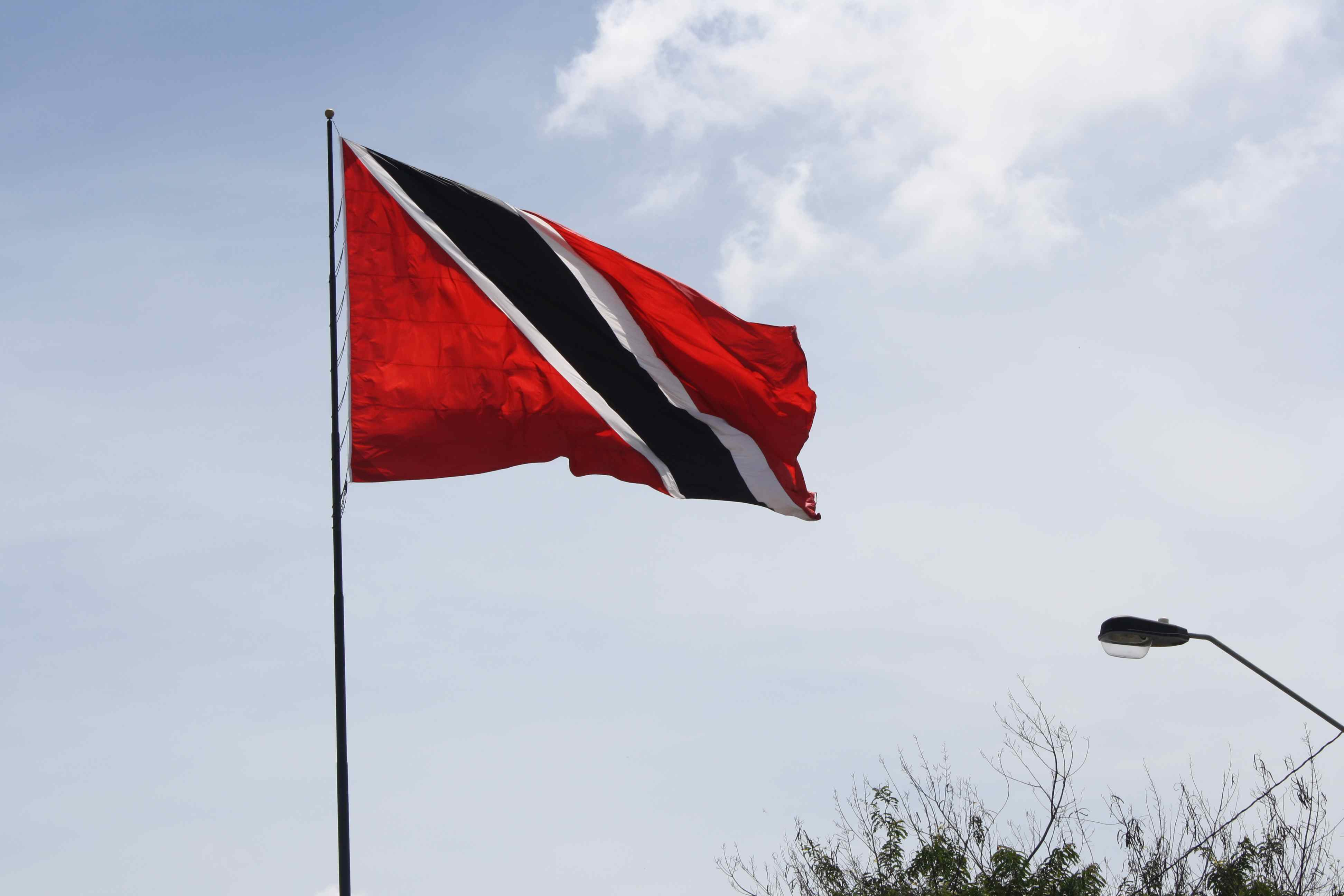 National Flag of Trinidad & Tobago at the CONCACAF Centre of Excellence in Macoya, Trinidad